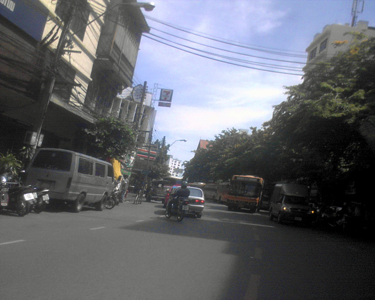 Thanon Ratchawong